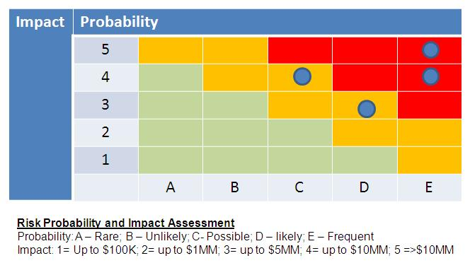 An example of a risk assessment produced during a control self-assessment exercise